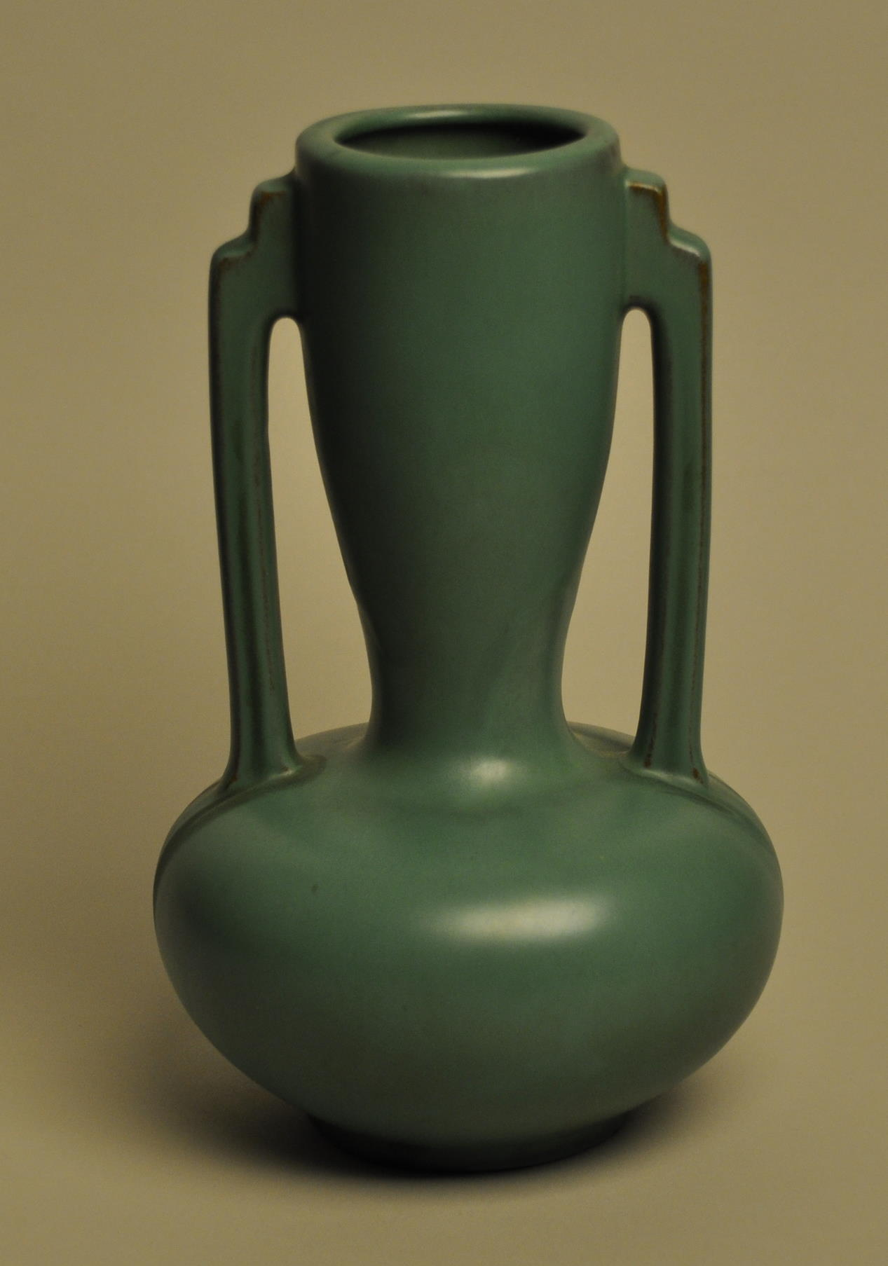 Catalina Pottery green vase